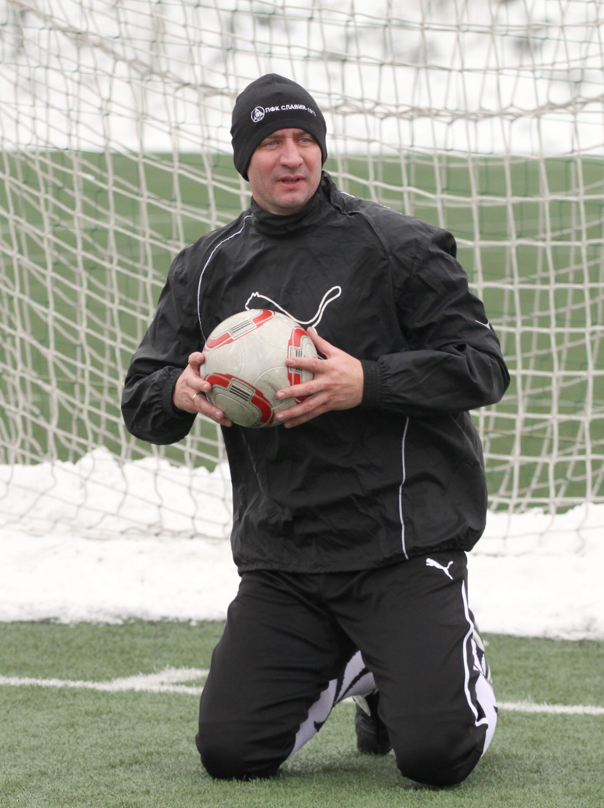 Martin Kushev - Bulgarian football player, who currently plays for Slavia Sofia. Kushev has often been described as an old fashioned English-style centre forward due to his physical presence and outstanding aerial ability.